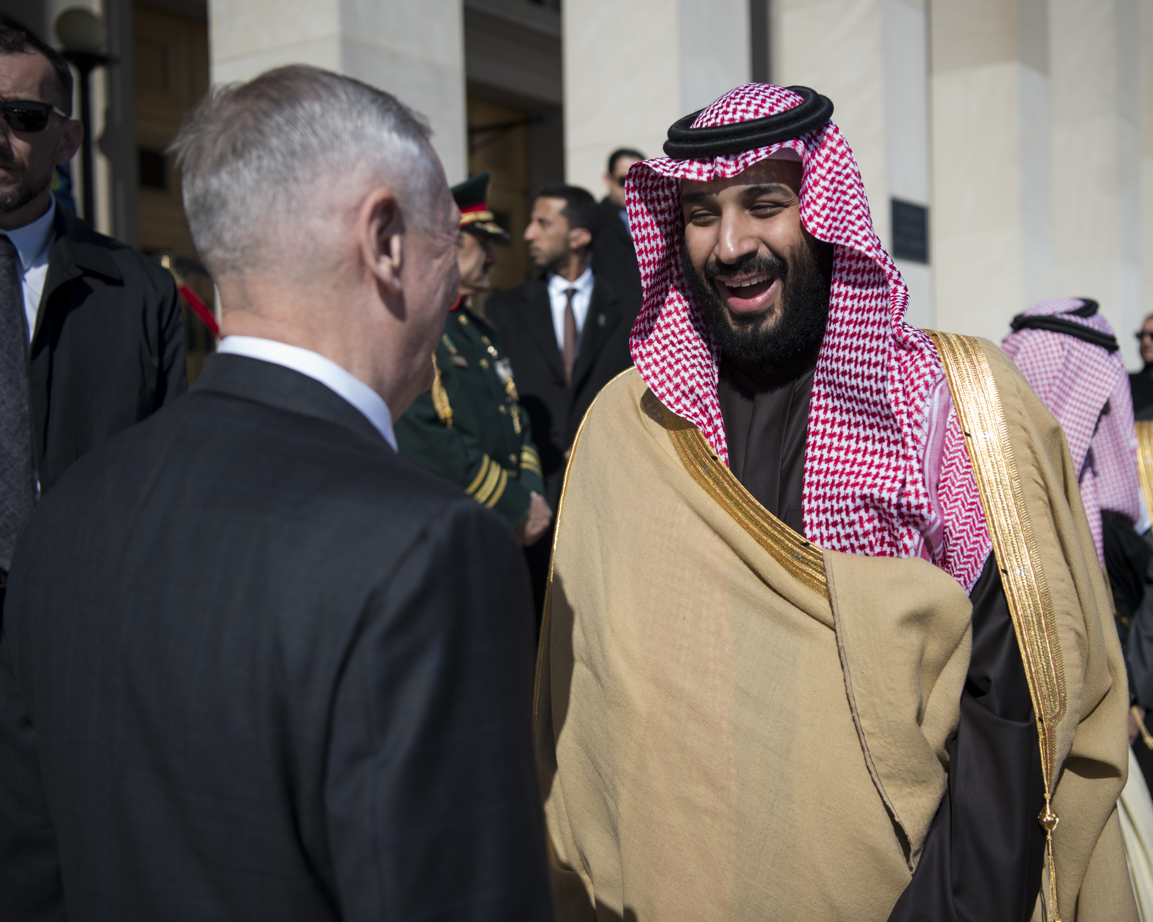 Defense Secretary James N. Mattis meets with Saudi Arabia's First Deputy Prime Minister and Minister of Defense, Crown Prince Mohammed bin Salman bin Abdulaziz at the Pentagon in Washington D.C. (180322-D-SH953-0273)